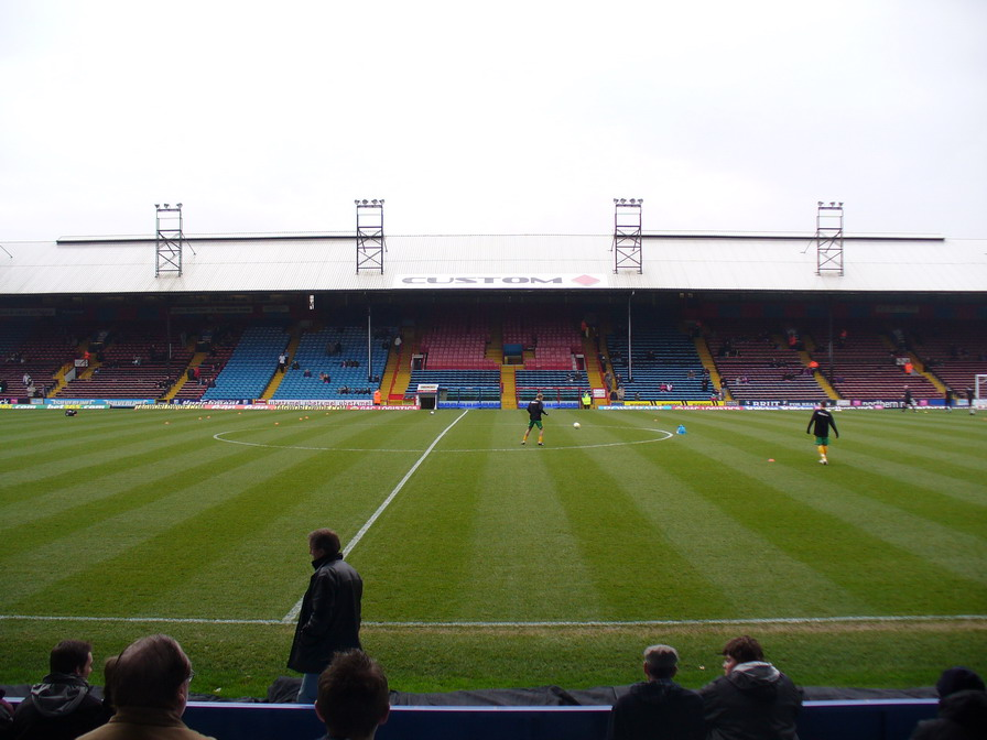 London - Selhurst Park (stadium of Crystal Palace FC) - Main Stand